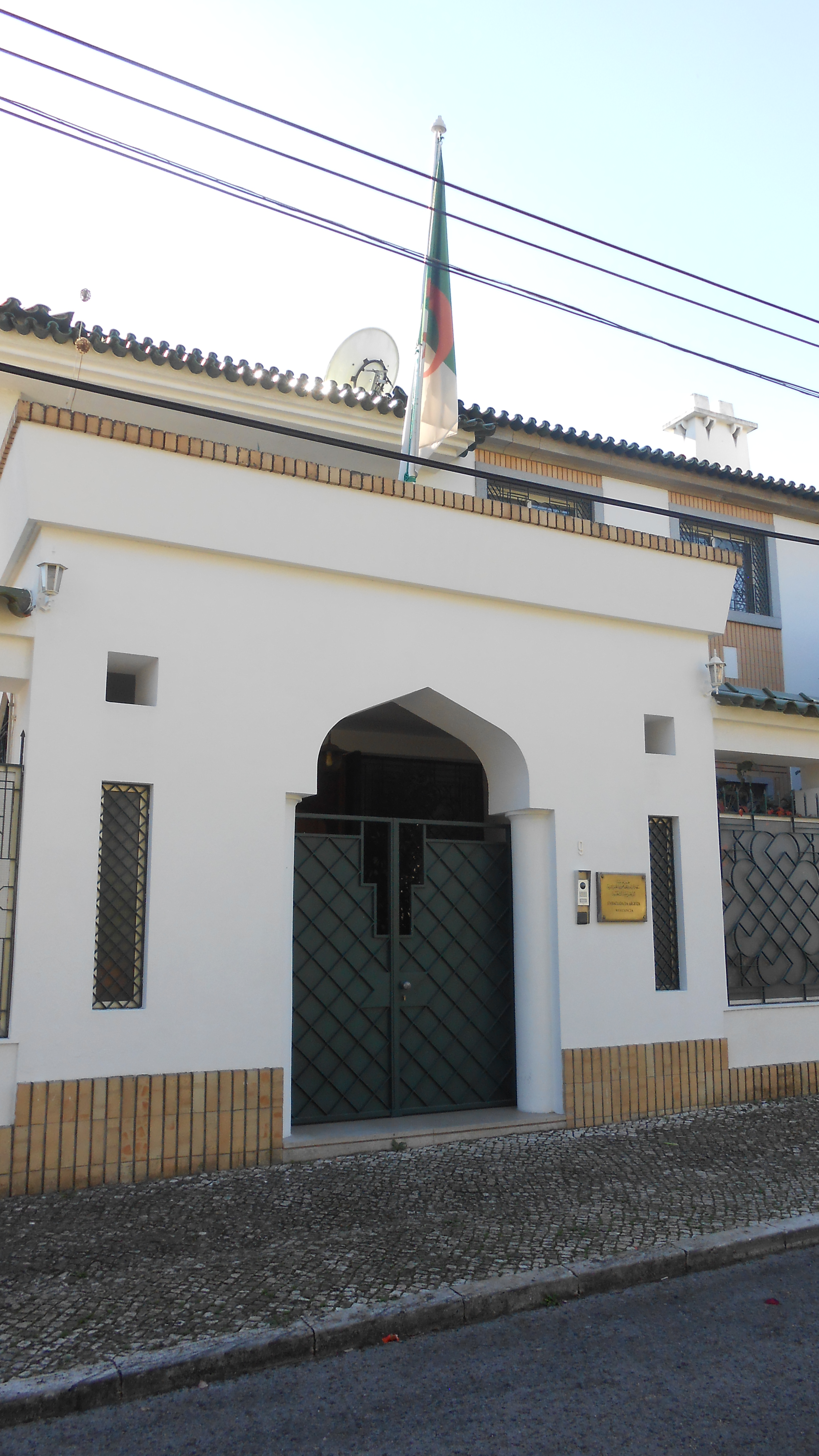 The algerian embassy in Belém, a neighbourhood in Lisbon